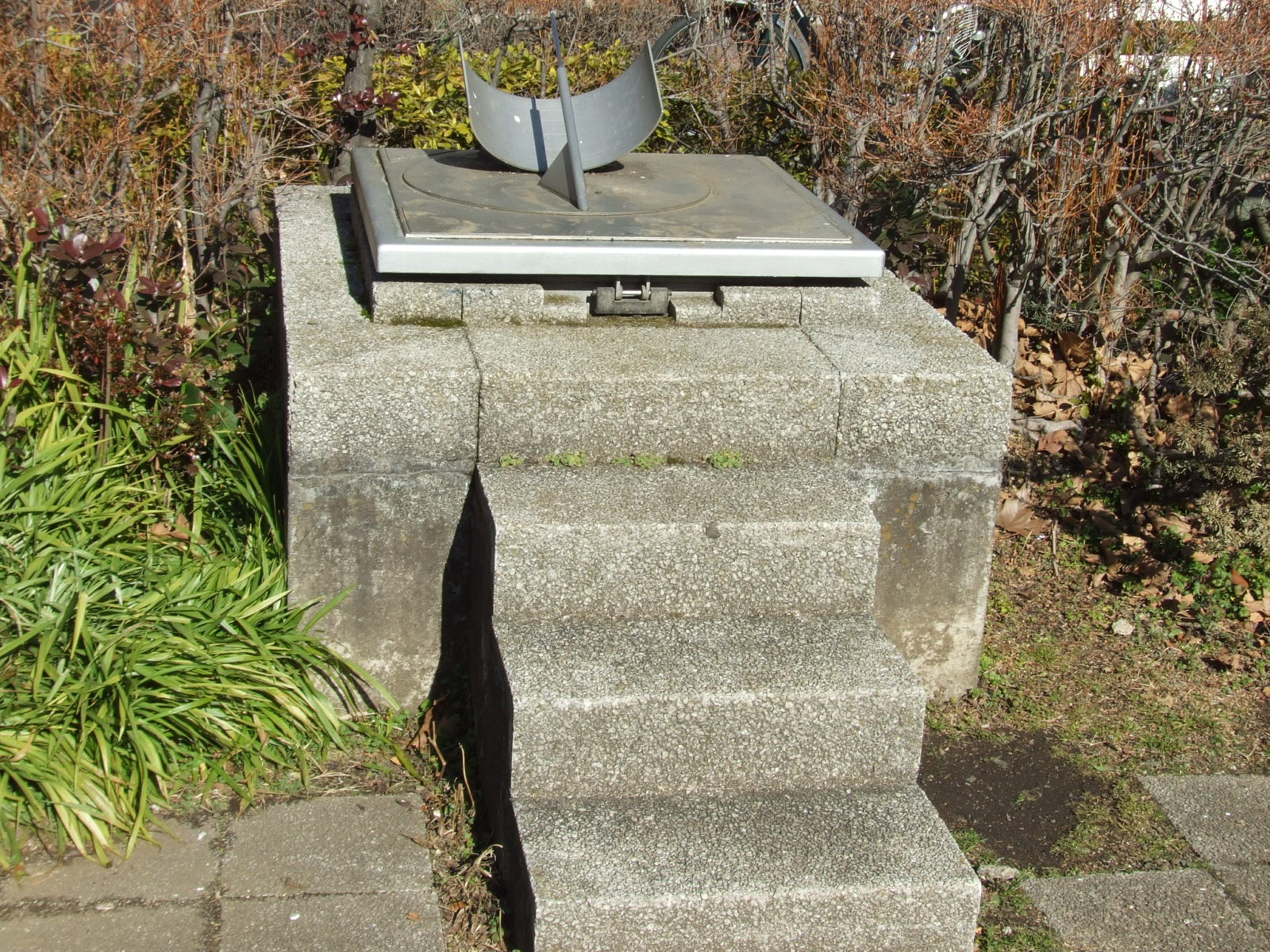 A sundial in Suginami, Tokyo, Japan